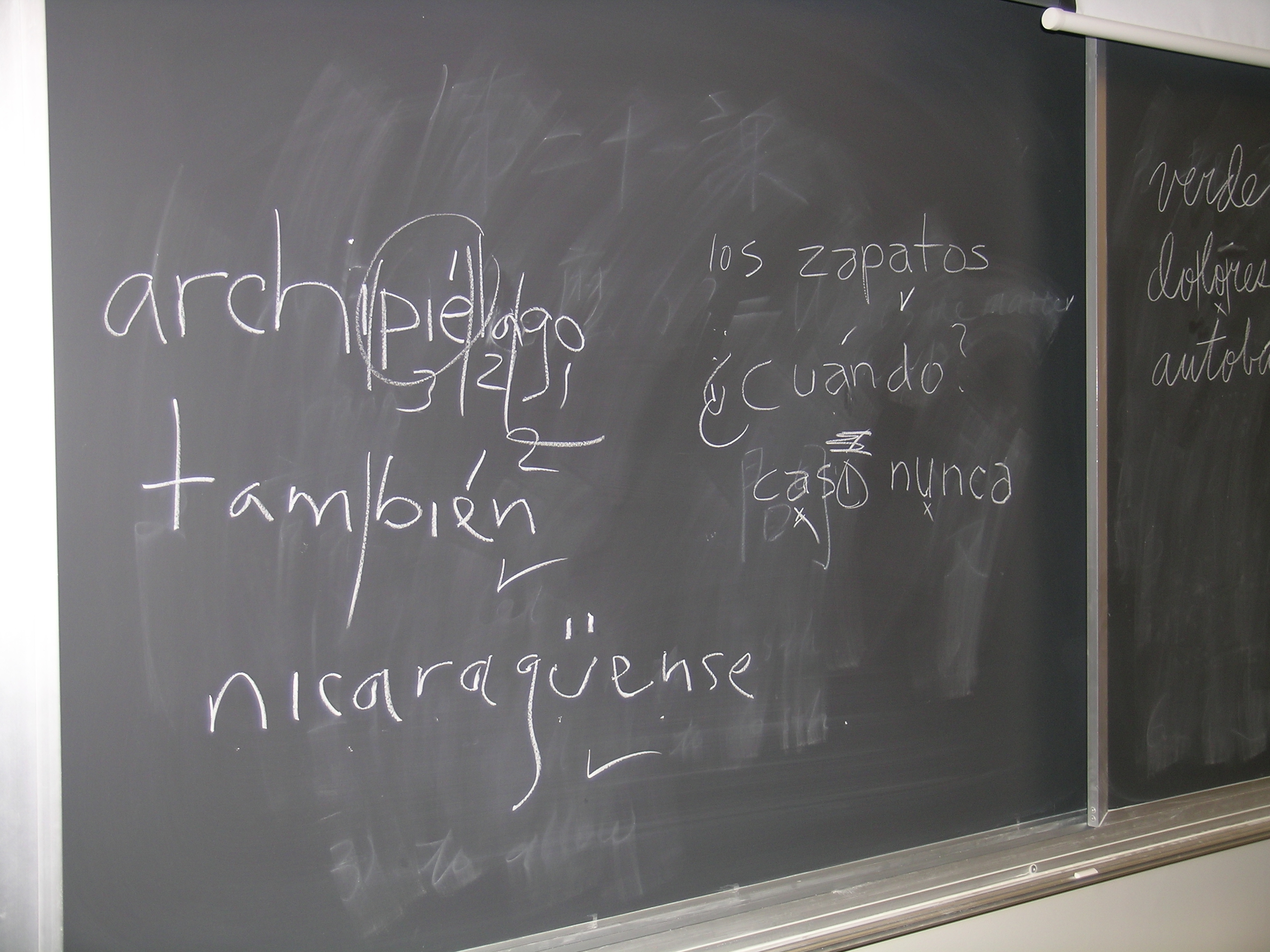 Blackboard used in Spanish language class at Harvard University reveals students' difficulty in correctly placing the acute accent used in Spanish orthography. March 4, 2008 photo by John Stephen Dwyer